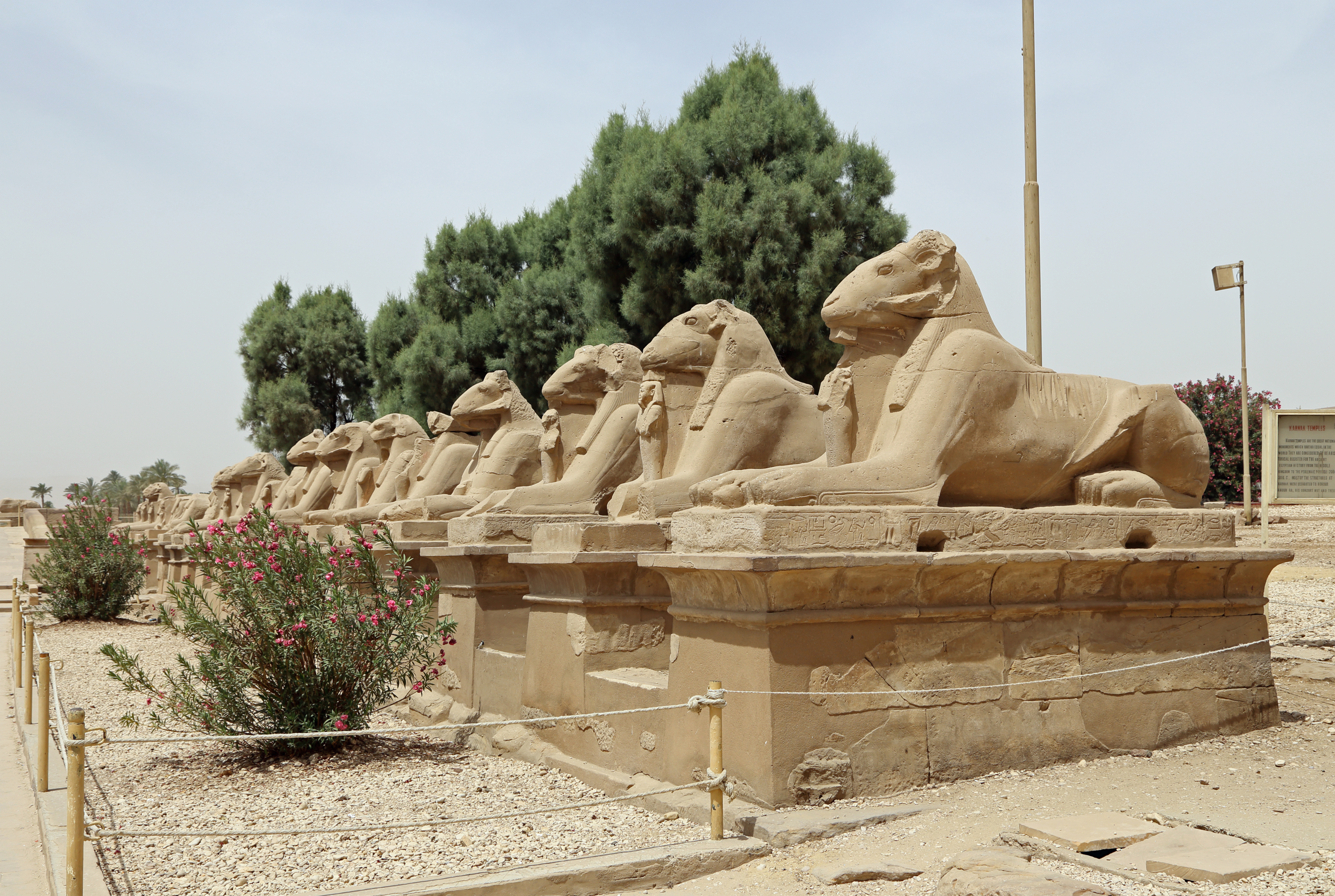 Luxor (Egypt): western sphinxes alley of Karnak temple, with ram-headed sphinxes